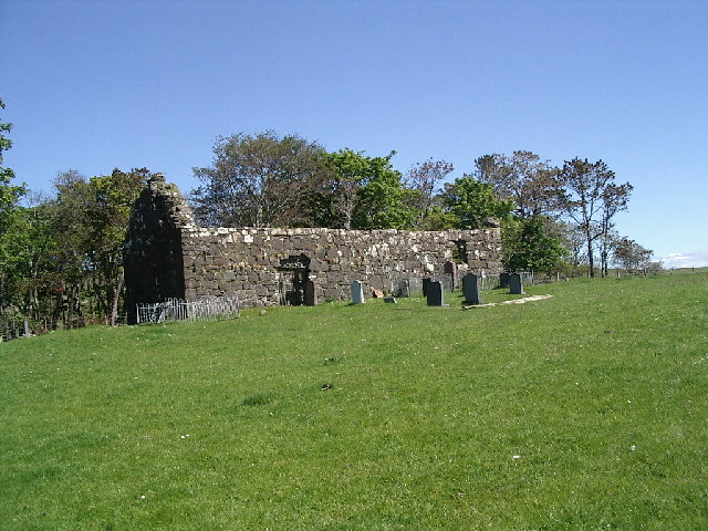 Ruined chapel of Kildonnan. The chapel, now ruined is one of the earlist buildings on the island.